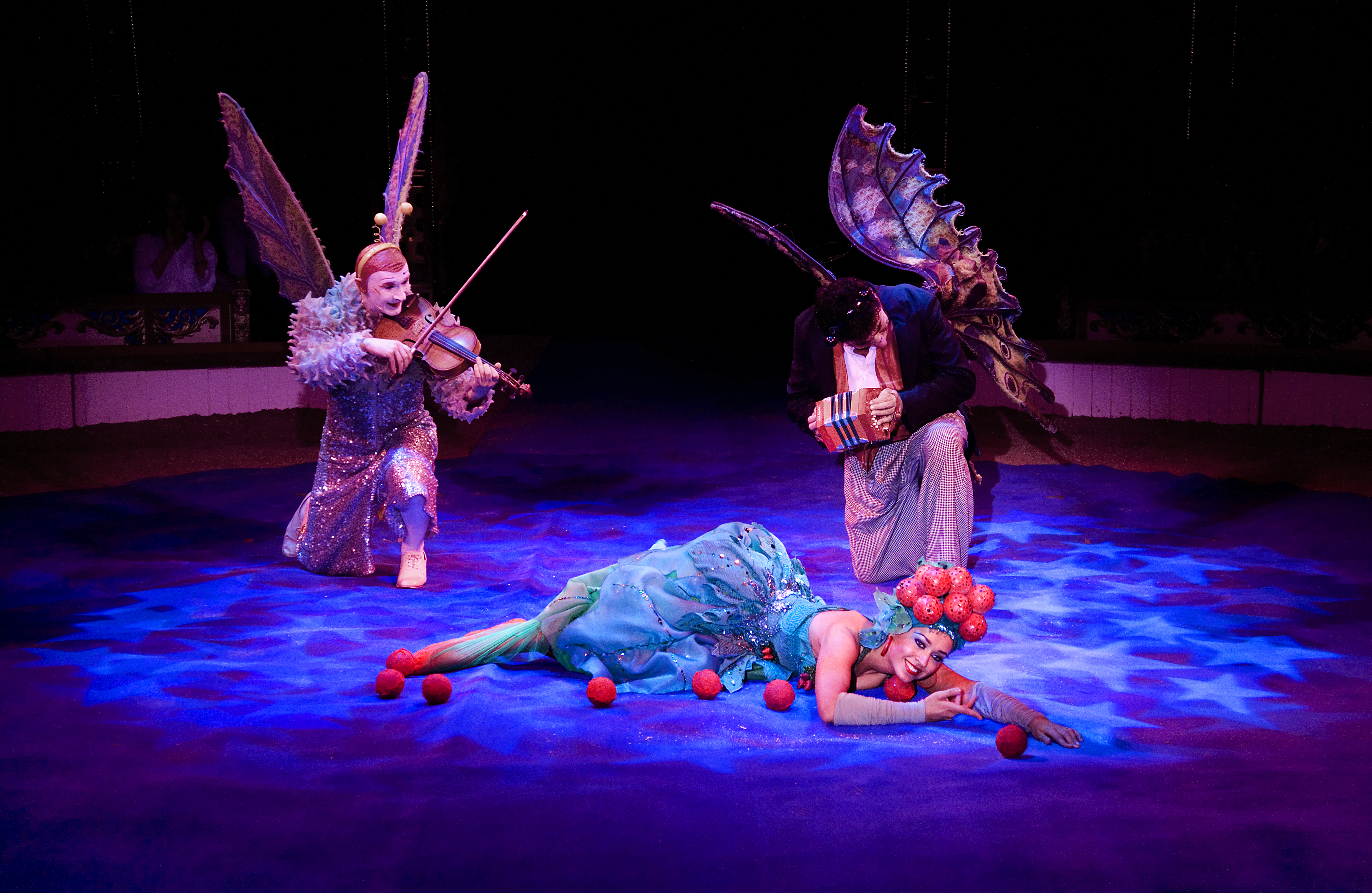 Two clown musicians and a pretty juggler. Circus Roncalli. Munich, Germany.